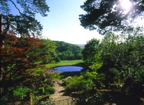 Robert Chambers, RR Archives